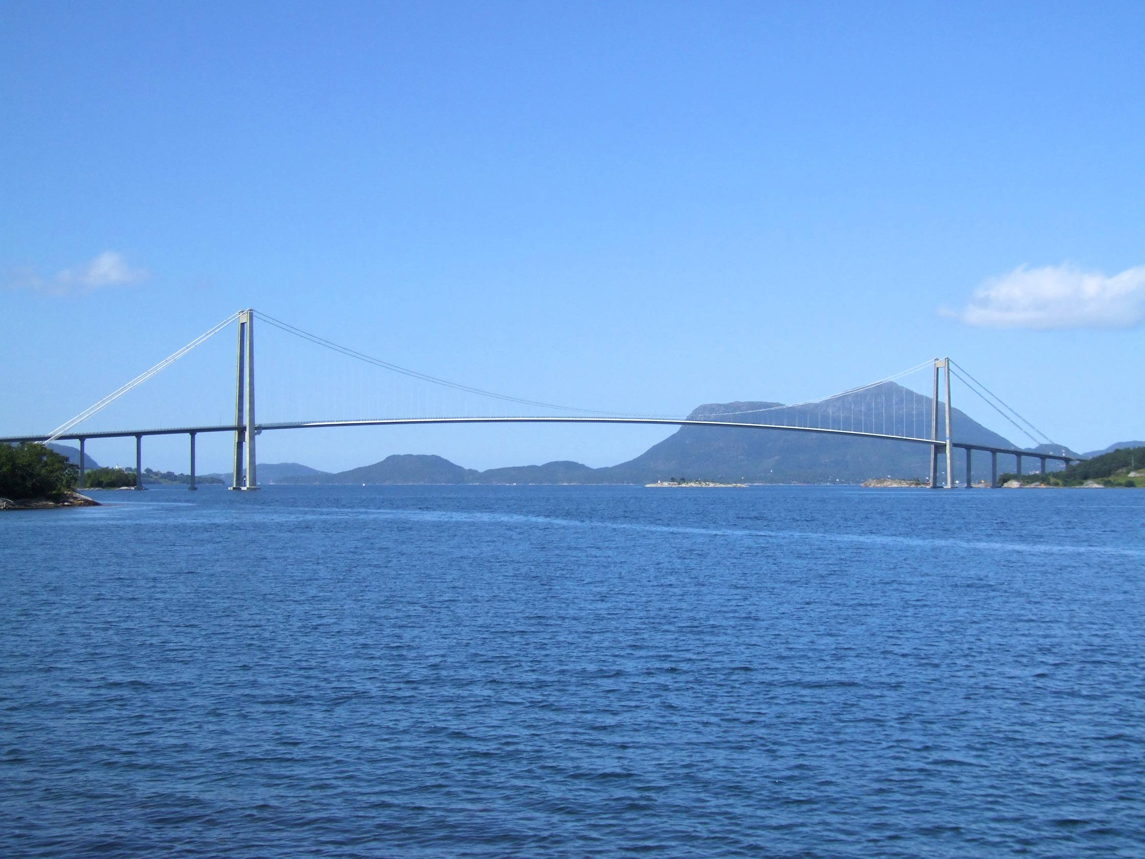 Gjemnessund Bridge, Møre og Romsdal, Norway.